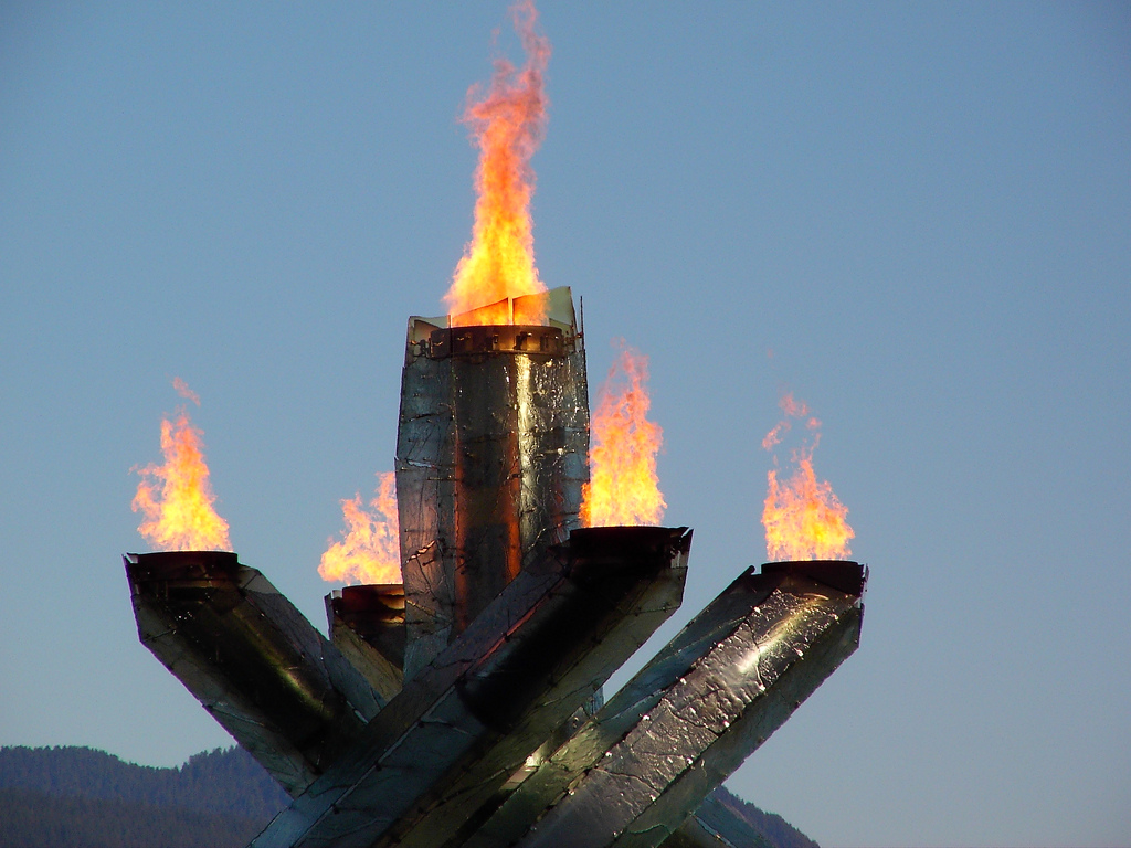 Close up of the Olympic flame